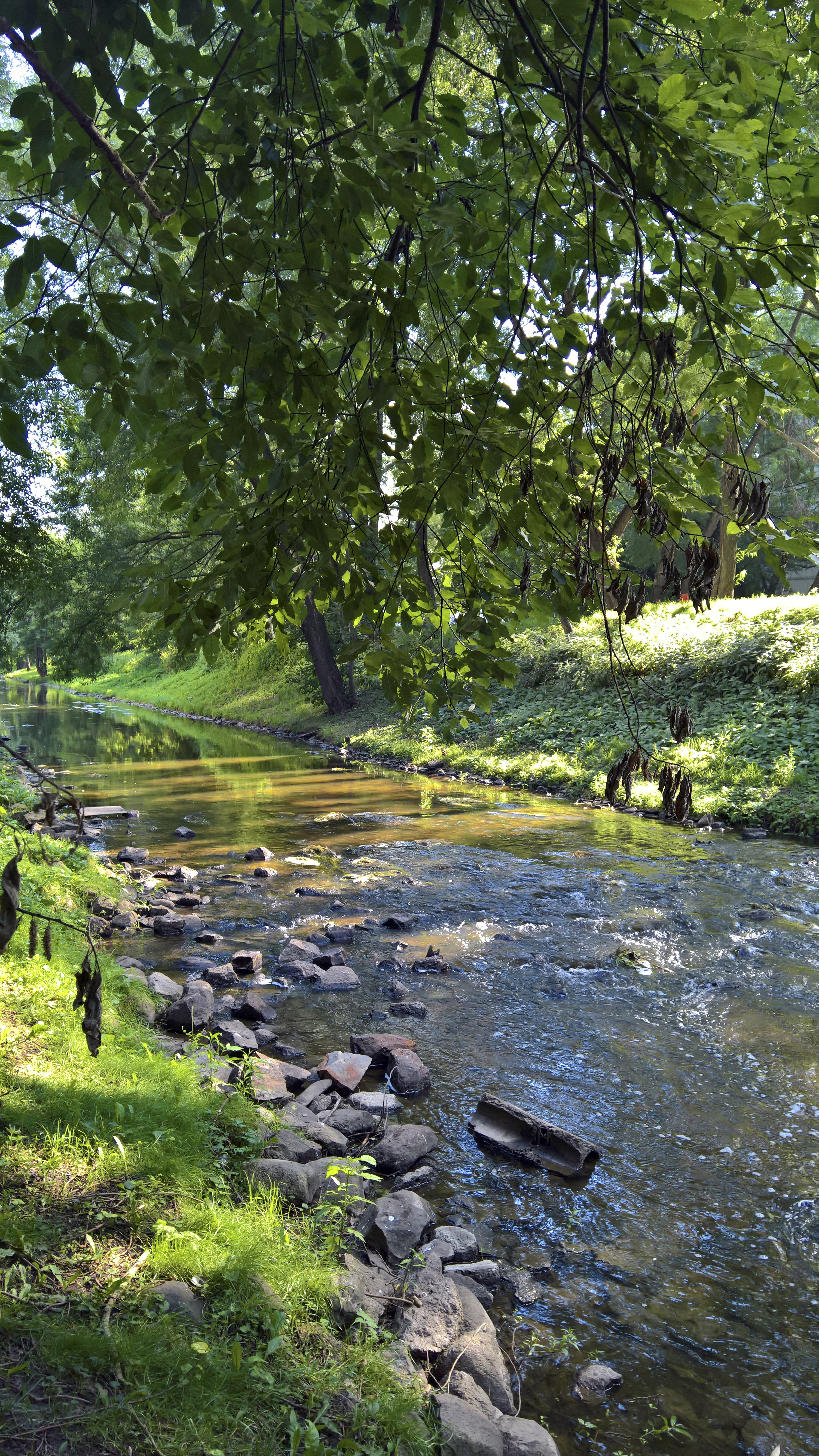 Lihoborka river near 3-y Likhachevskiy per.